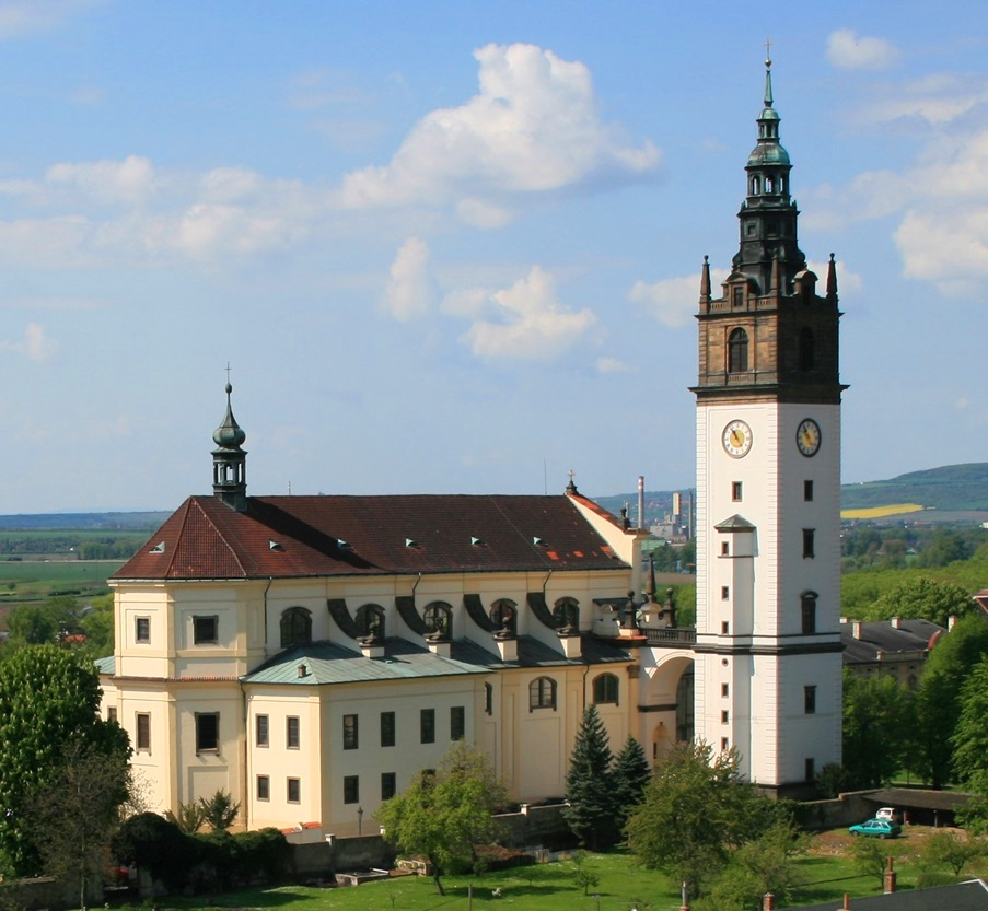 Cathedral_of_Saint_Stephen_Litoměřice